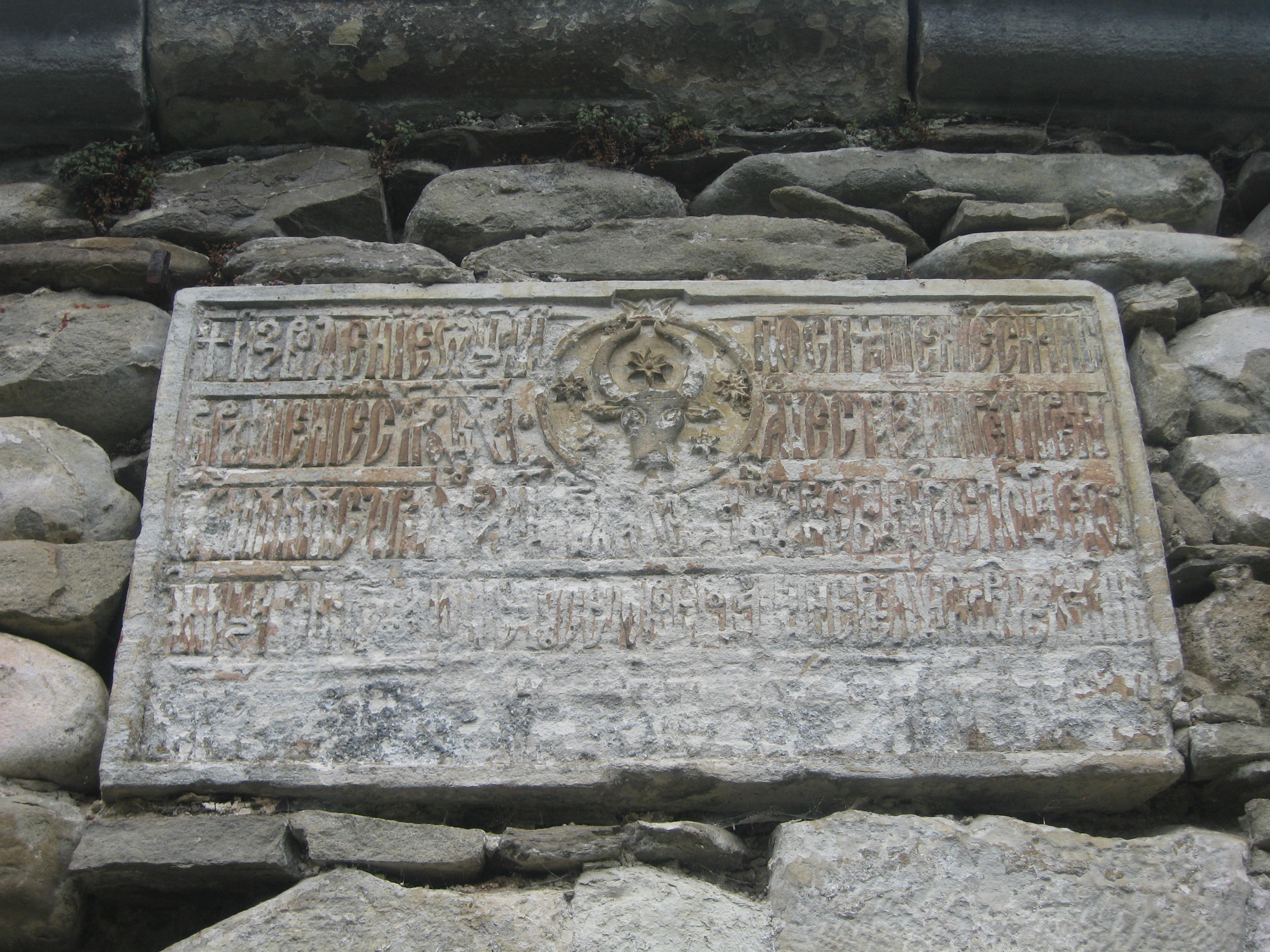 Palatul Cnejilor from Ceahlău, Neamţ County, Romania